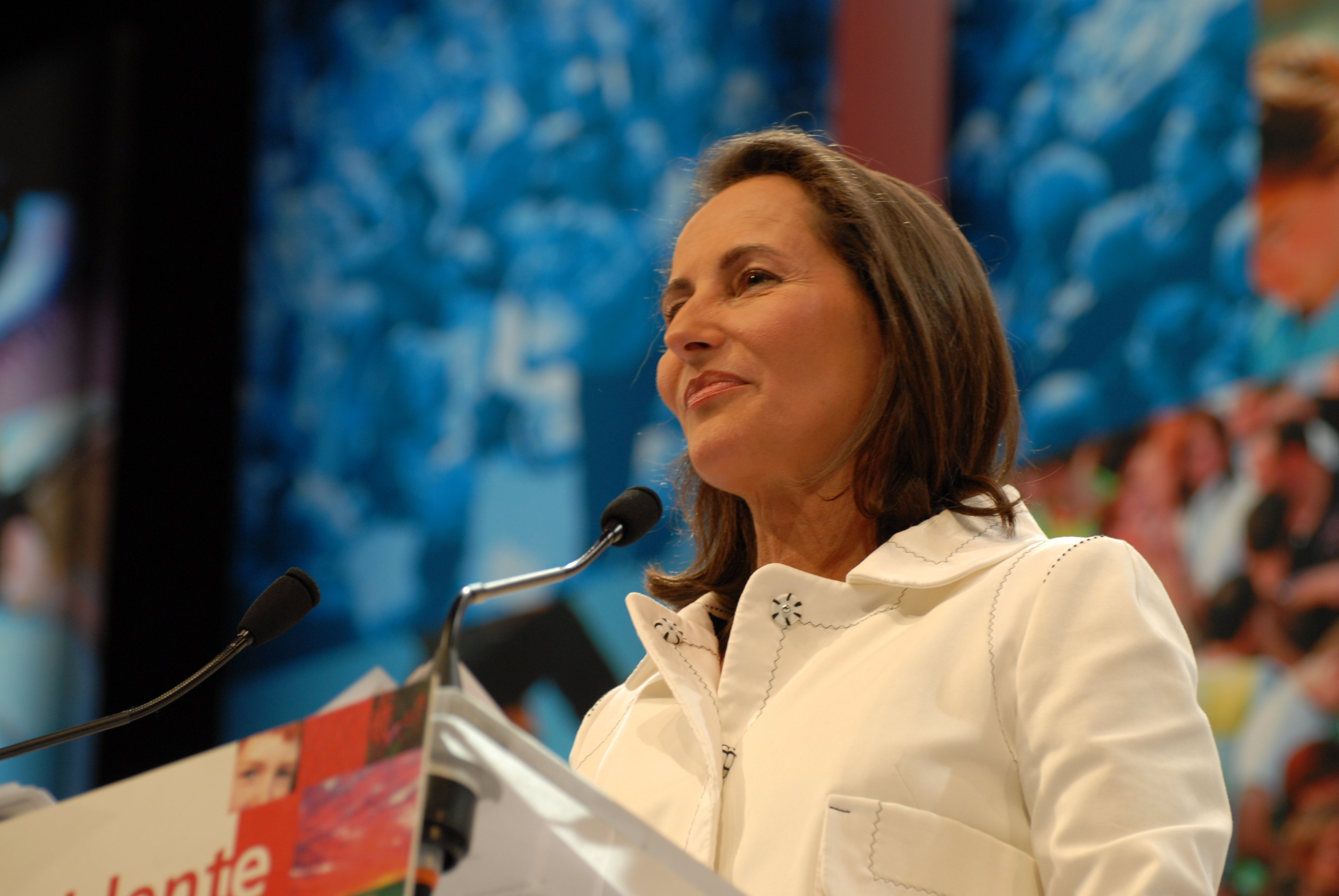 Ségolène Royal during her meeting in Toulouse on April, 19th 2007 for the 2007 presidential election.